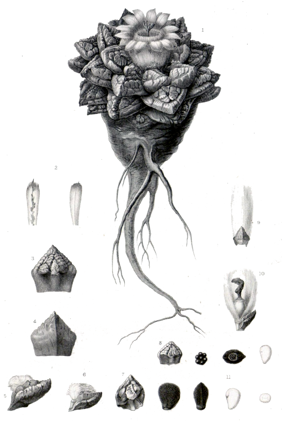 Mammillatia fissurata